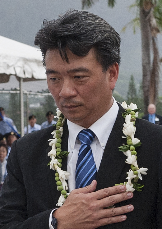 Brian Schatz (left), senior United States senator of Hawaii, Shan Tsutsui (center right), lieutenant governor of Hawaii, and U.S. Army Maj. Gen. Arthur J. Logan, the adjutant general of the state of Hawaii, render their respects alongside a U.S. Navy Sailor during a wreath laying as part of the 2015 Governor’s Veterans Day Ceremony at the Hawaii State Veterans Cemetery Nov. 11, in Kaneohe, Hawaii. U.S. Navy Adm. Harry Harris, commander of U.S. Pacific Command (PACOM), also laid a wreath with military leaders of PACOM and the U.S. Coast Guard during the ceremony. (U.S. Air Force photo by Staff Sgt. Christopher Hubenthal)